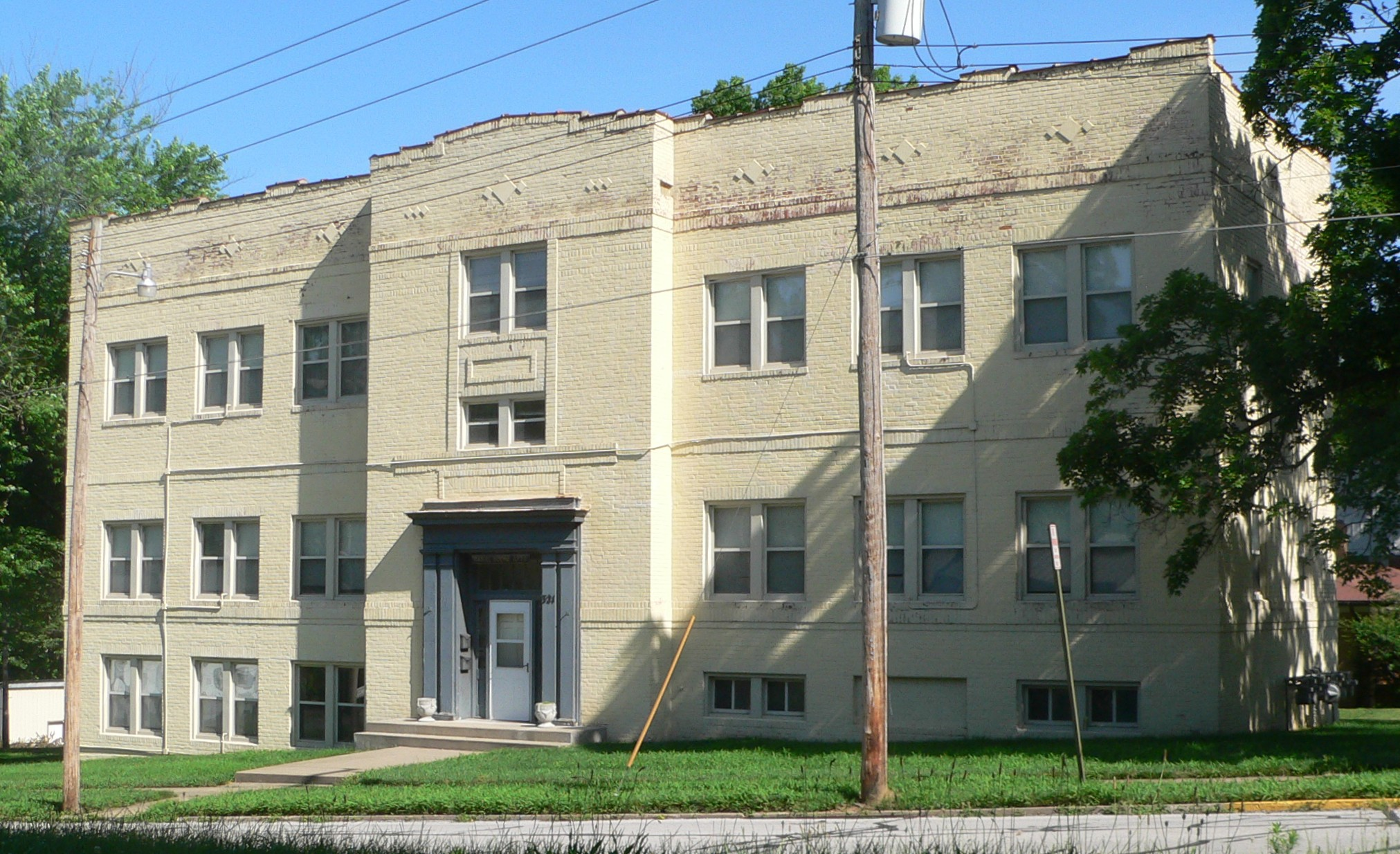 Daniel Boone Apartments, formerly Sumner Public School, at 321 Spruce Street in Boonville, Missouri; seen from the southeast, looking obliquely across Spruce.